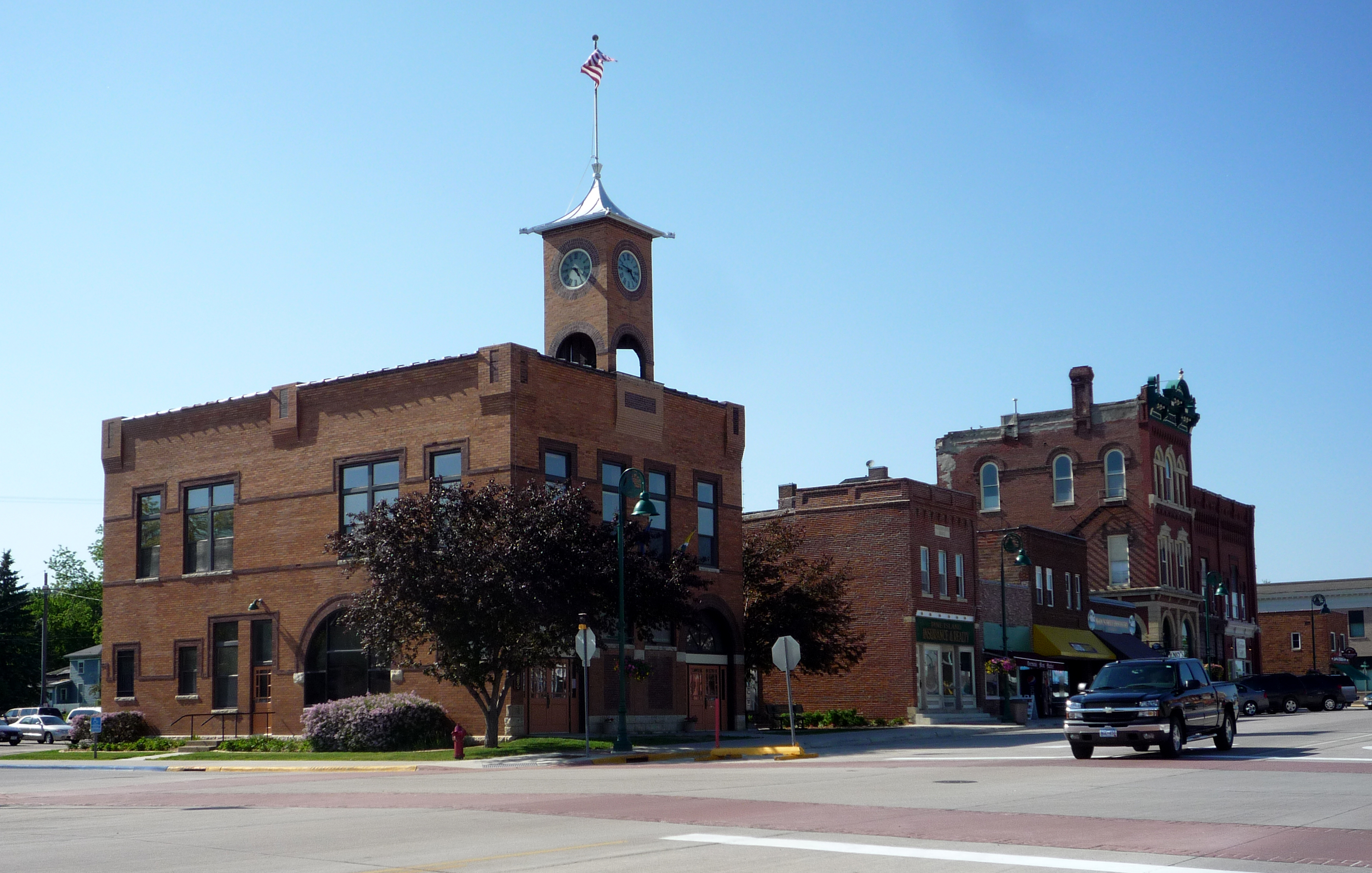 Downtown Pine Island, Minnesota, USA. City Hall is at the left.